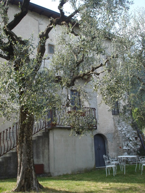 Sacristy